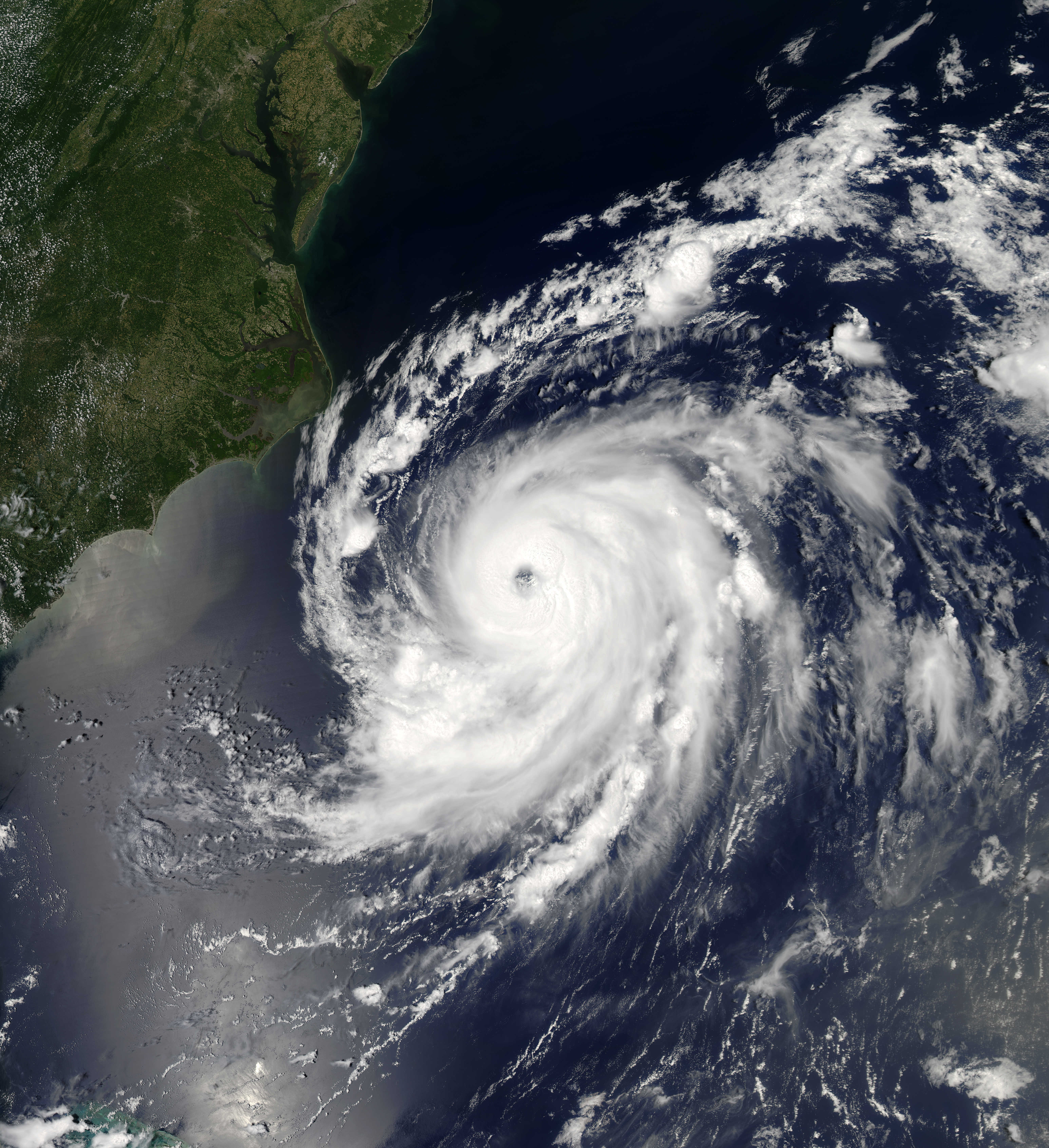 Hurricane Chris strengthening in the Atlantic, off the coast of North Carolina, on July 10, 2018